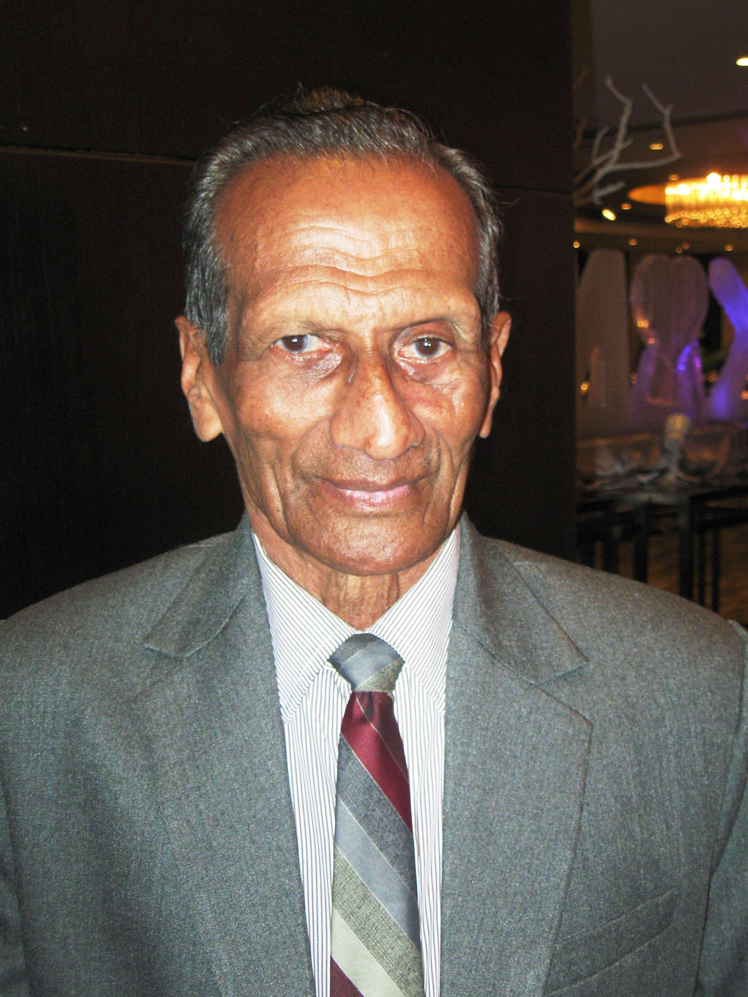 Photograph of Mr. Henry Gunasekara, last owner of elephant: Heiyantuduwa Raja